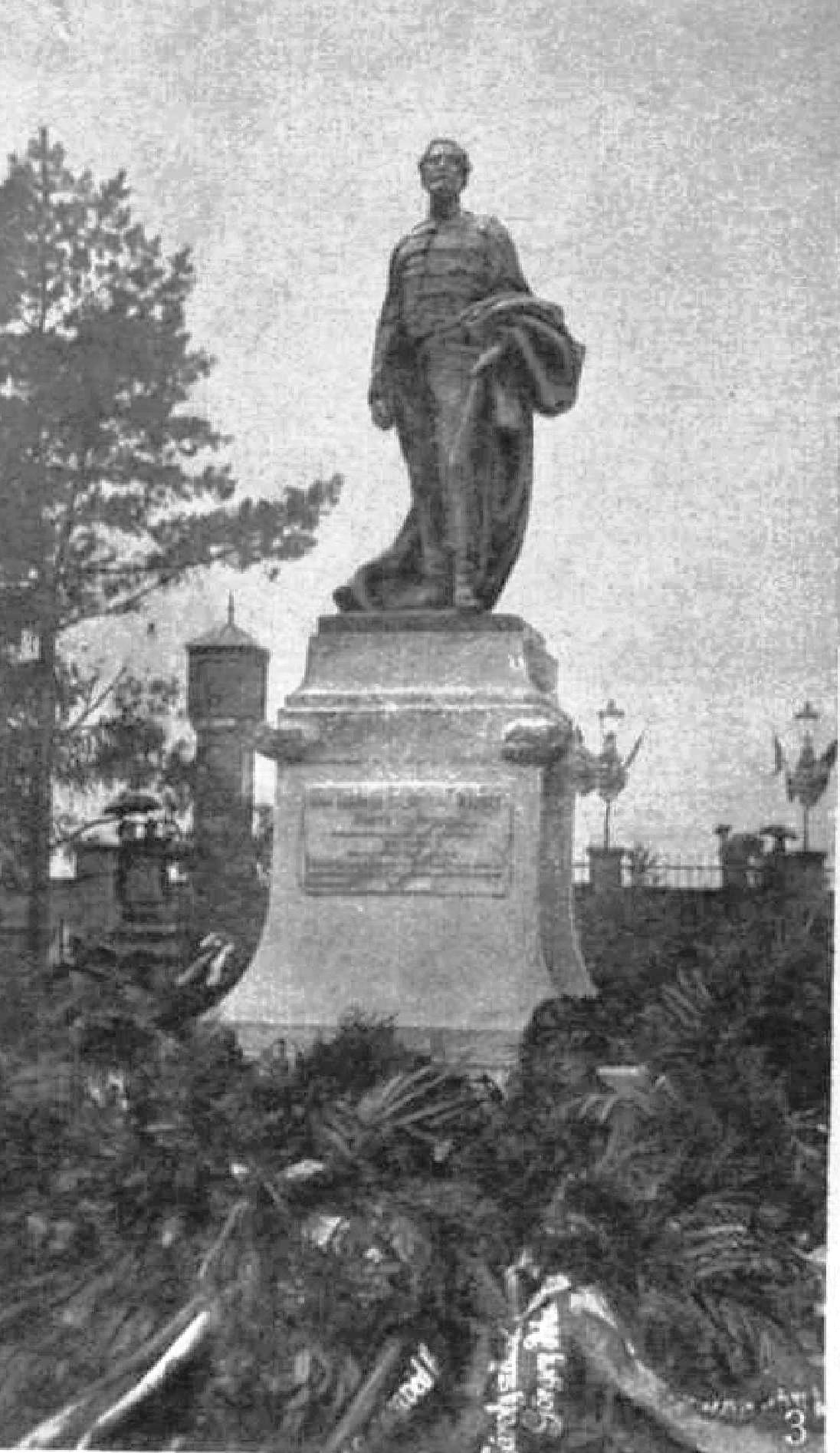 Statue to Leiningen, Törökbecse, Vojvodina (then Austria-Hungary). The original inscription reads: Count Charles Leiningen-Westerburg, General of the home-defend army, who for the freedom of his new home-country, at 1849 octobre 6th, died a martyr's death at Arad. Although your earthly remnants have returned to the soil, your noble soul, it's gallantry and your genie will forever live on the skies of our Hungarian home and within every Hungarian's heart.